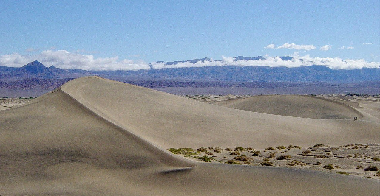 Photograph of Mesquite Flat Dunes in Death Valley looking toward the Cottonwood Mountains from the north west arm of Star Dune (the largest dune in the area — Death Valley National Park, California. This photo was taken the morning after a light rain so the dunes were darker than they normally would be. Notice the two people standing on the rightmost part of the largest dune in the foreground. Photo taken by Daniel Mayer in April 2003.